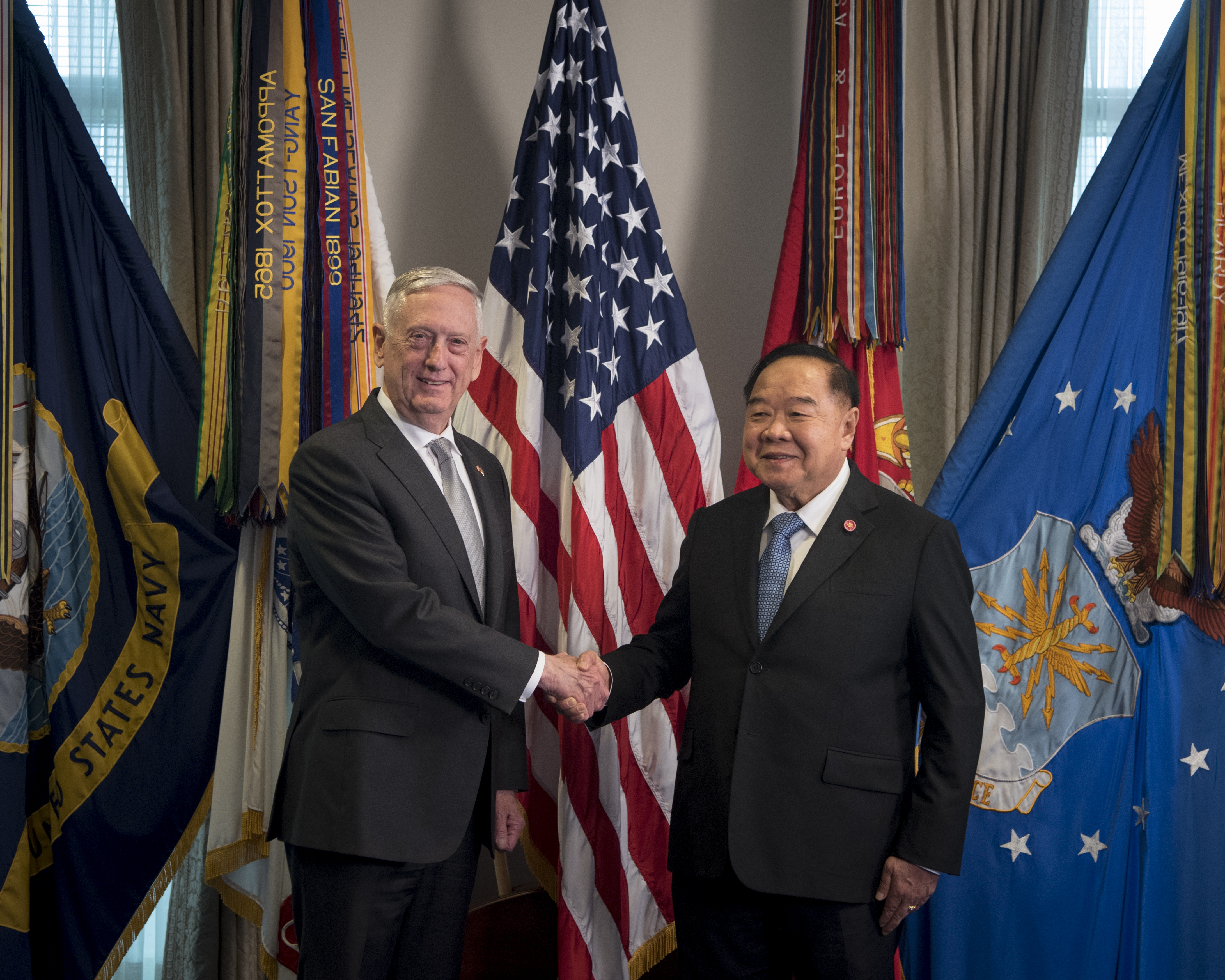 Defense Secretary James N. Mattis meets with His Excellency Prawit Wongsuwon, Minister of Defence for the Kingdom of Thailand at the Pentagon in Washington, D.C.